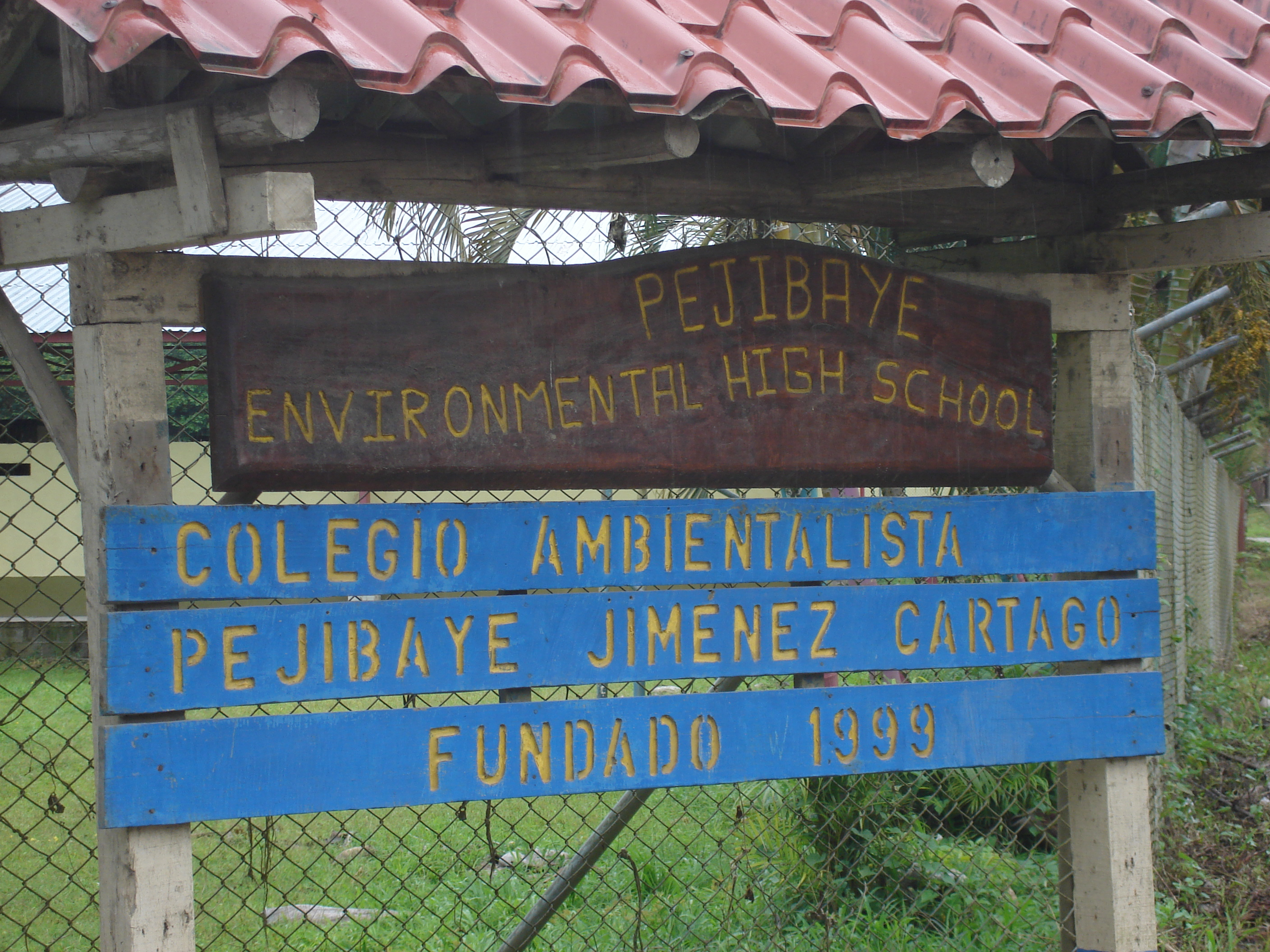 This is the sign in front of Colegio Ambientalista Pejibaye.